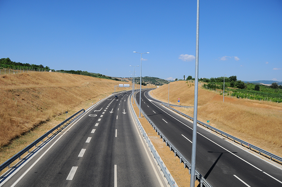 Kosovomotorway_Kosovo - 03